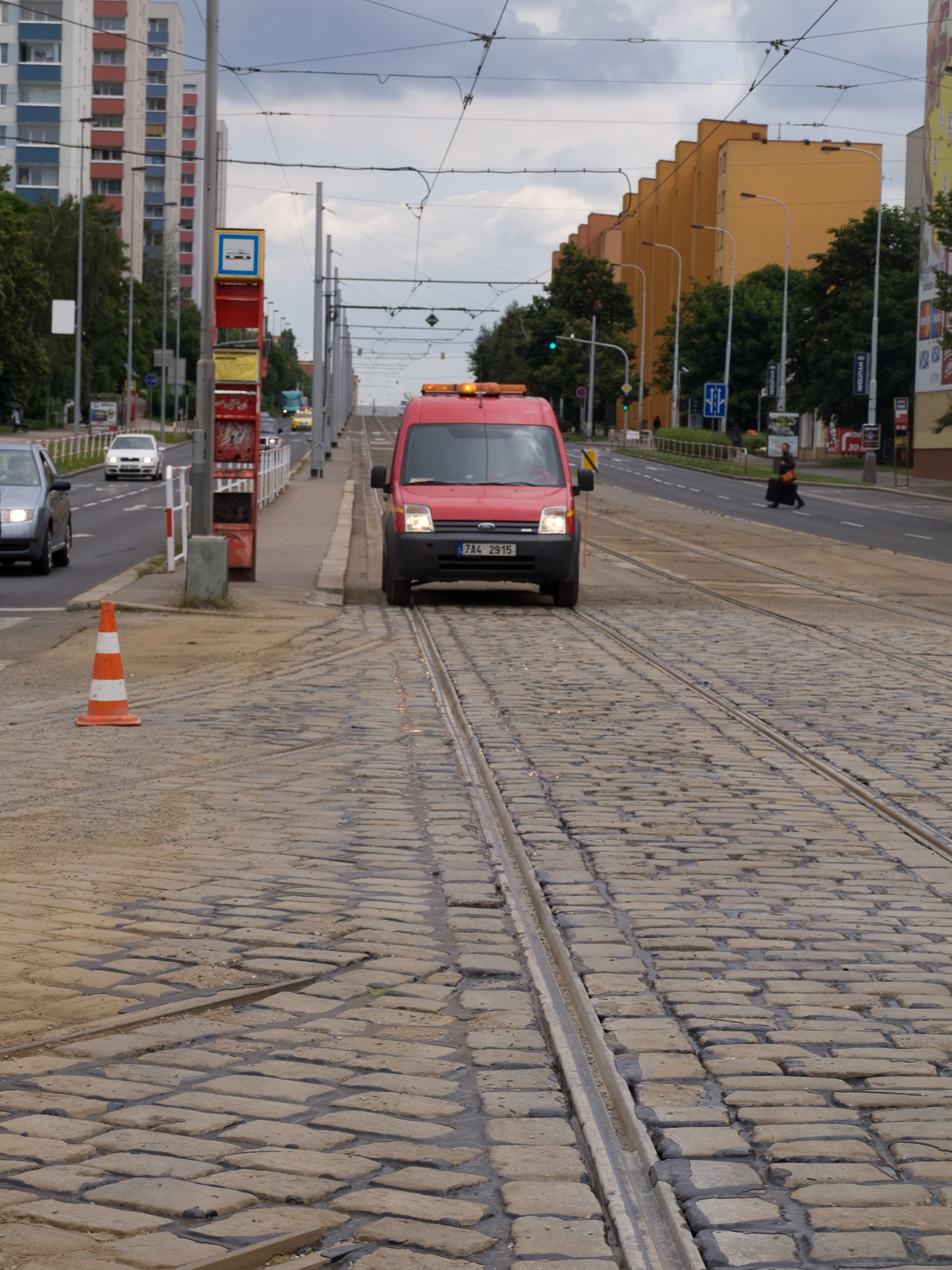 Tram loop Červený vrch, Prague 6